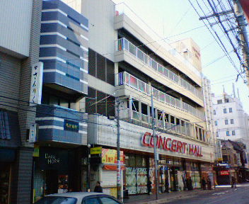 Pachinko Chain『CONCERT HALL』 Hachinohe Shop